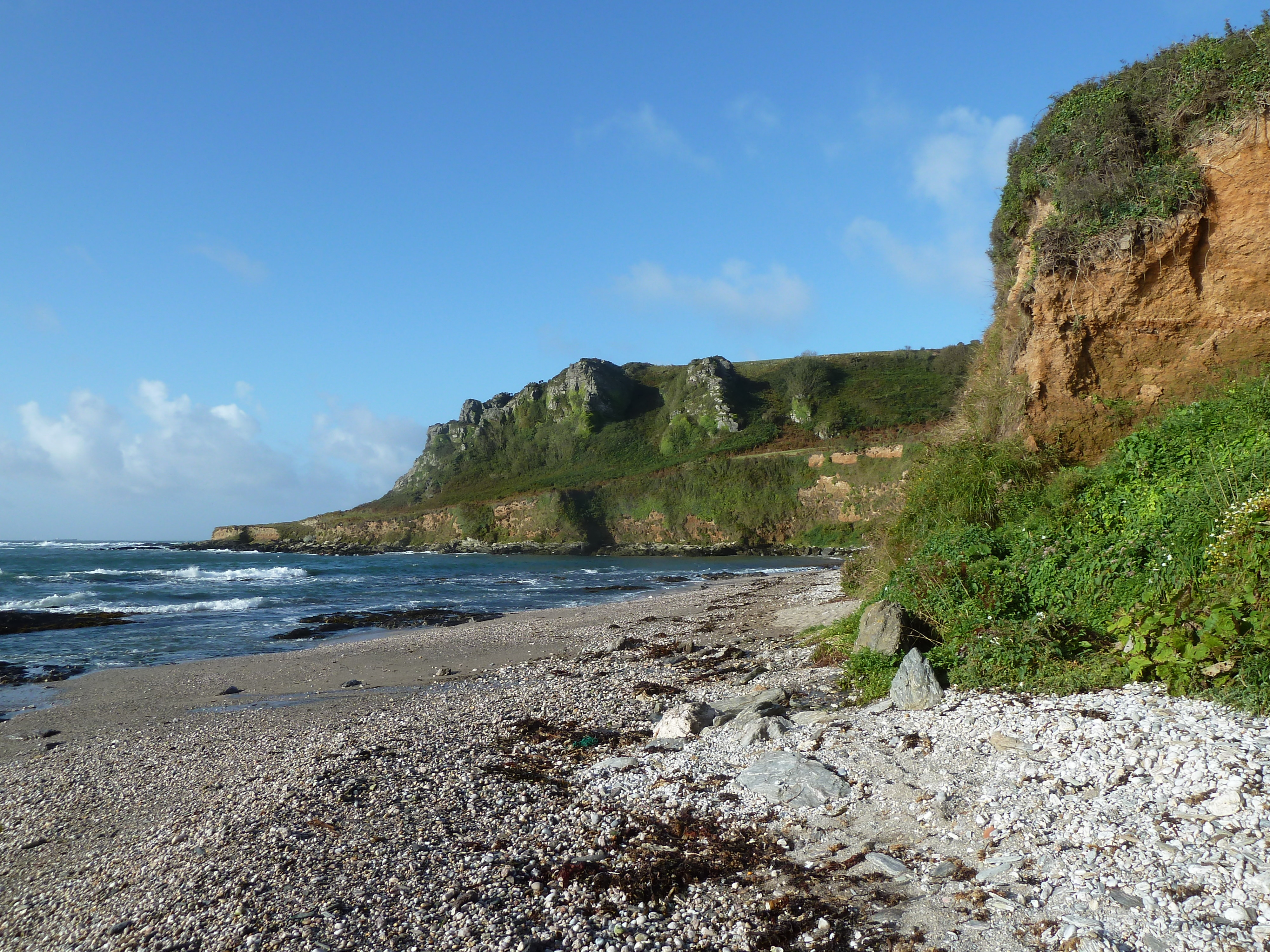 The beach just down from East Prawle village.